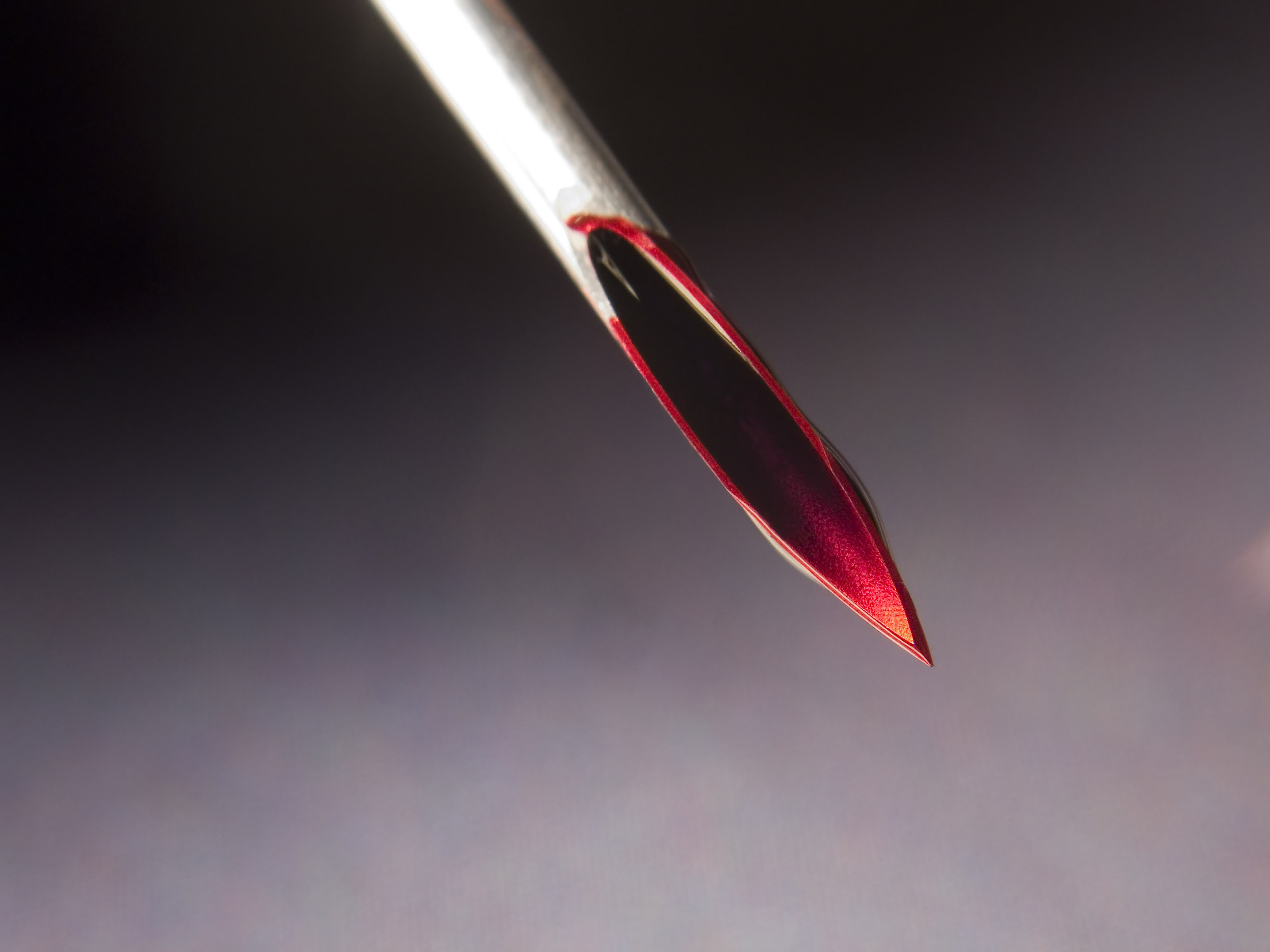 Dedicated to the red bic pen that gave it's life for this picture. An expired horse hypodermic needle.